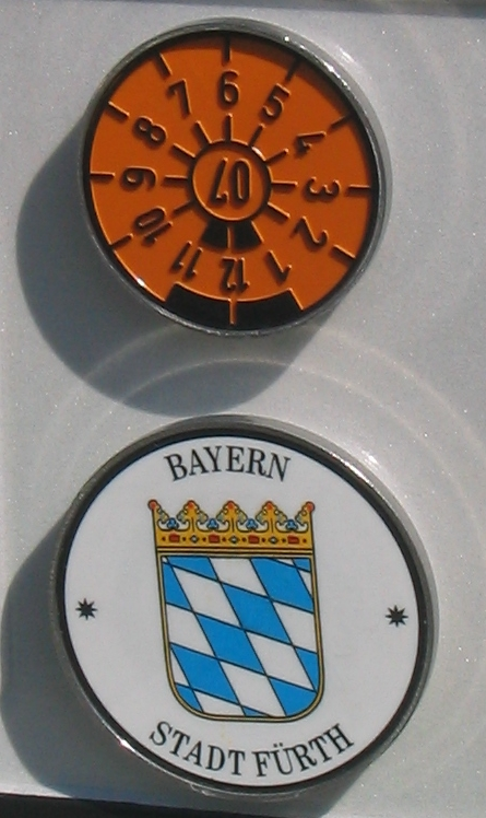 German car registration seals (registration and technical inspection).